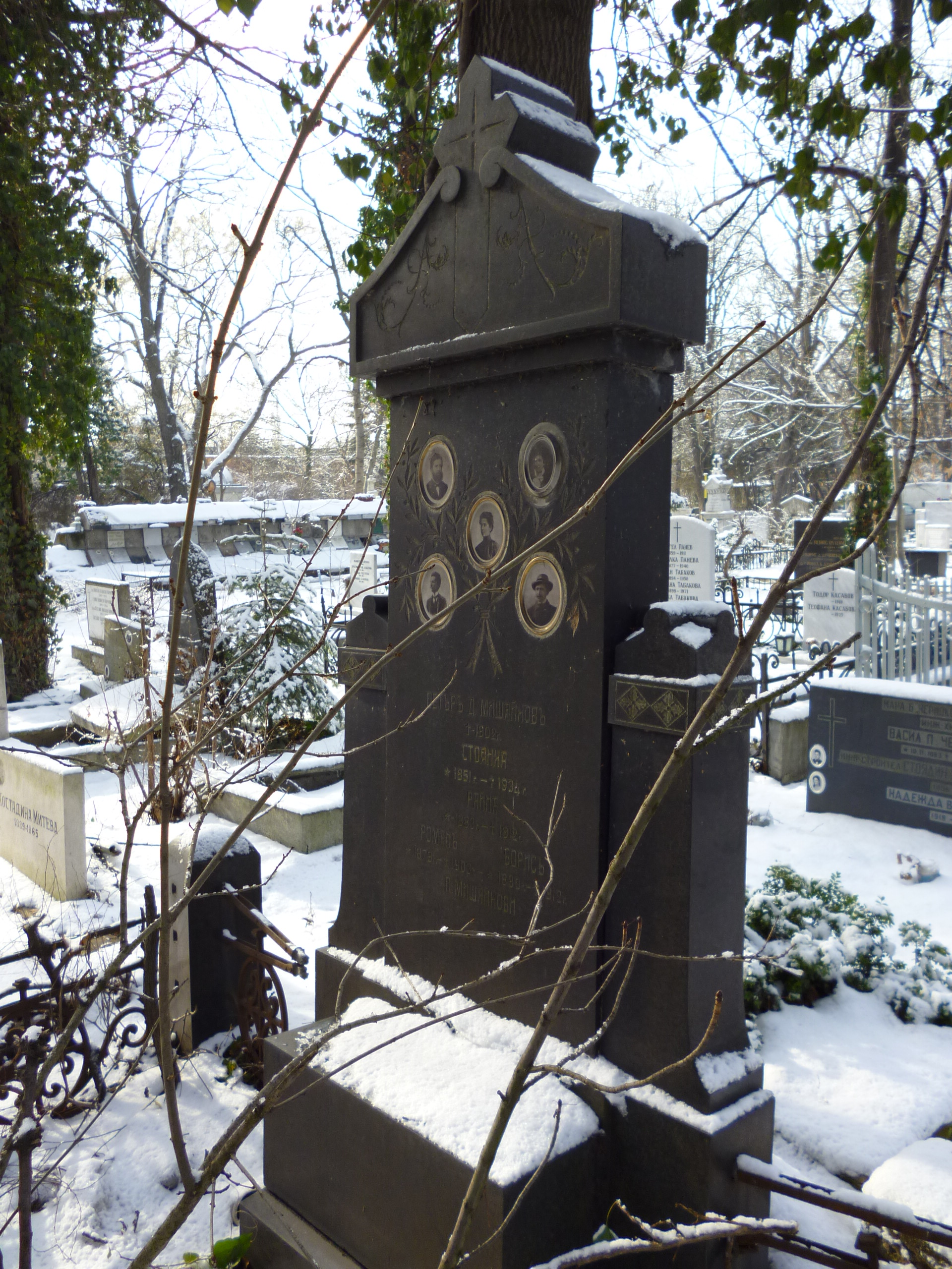 Grave of Mishaykovi Family in Central Sofia grave park